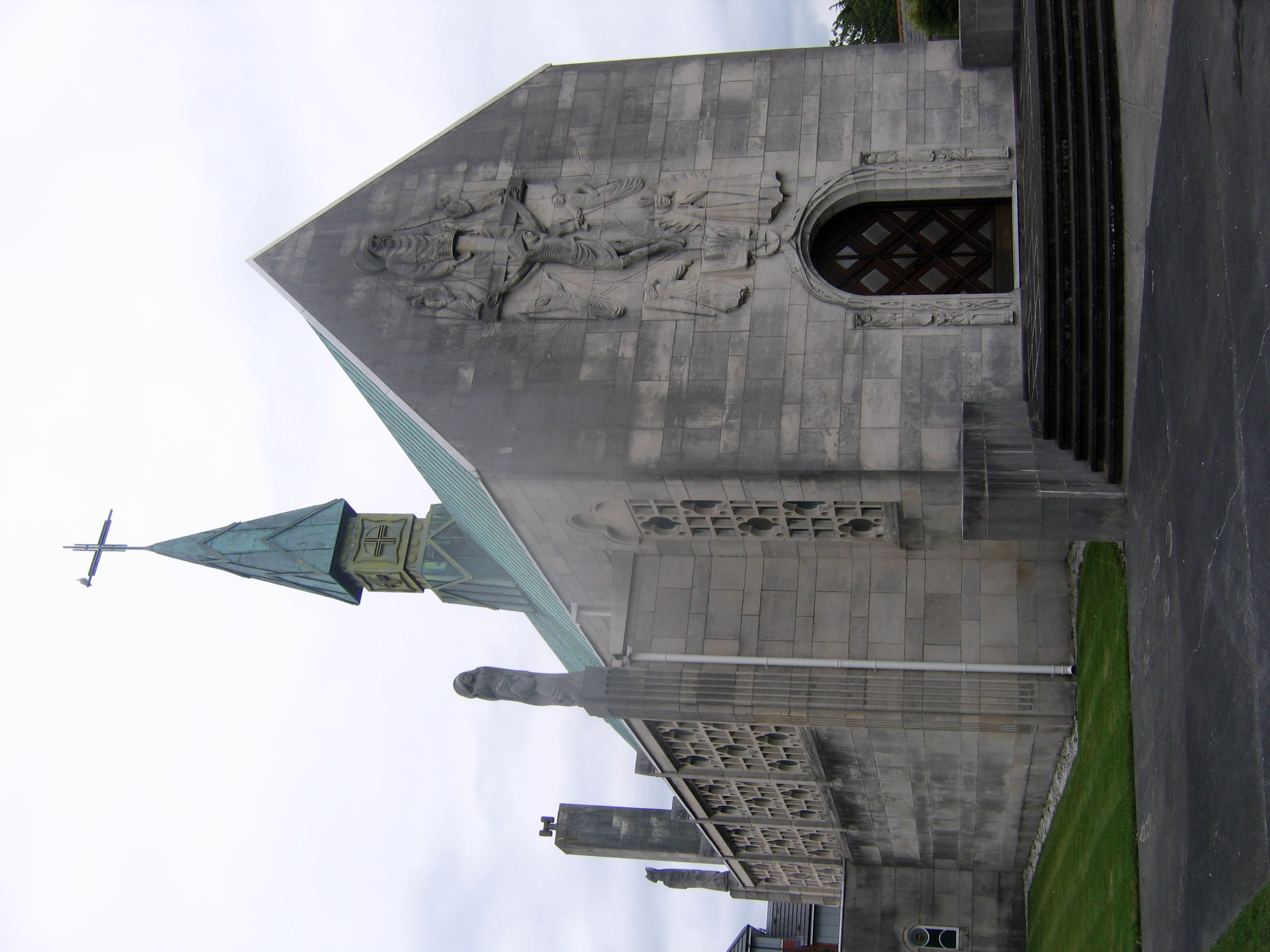 The Shrine of Our Lady of Lourdes, a chapel of thanksgiving in Blackpool, Lancashire, England. It is a Grade II* listed building.